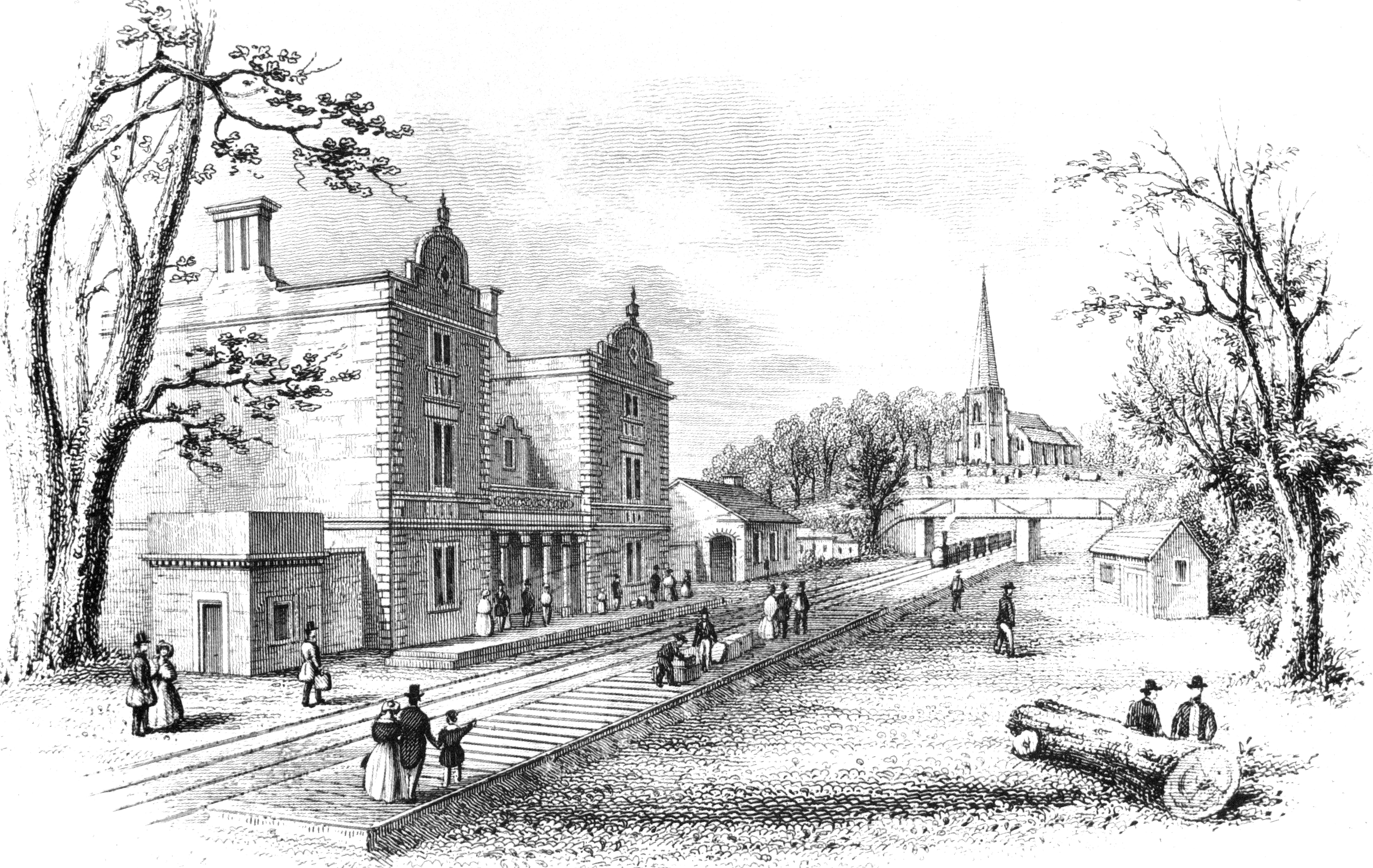 Lichfield City Station in 1849. This was the first station built but demolished in 1882 when the current one was built to accommodate additional services. This station was located further east than the present one, it was approached from the city by a path which ran across Levett's Field.